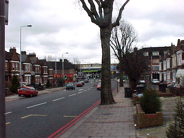 View looking East along the South Circular towards junction with Verdant Lane near Catford.